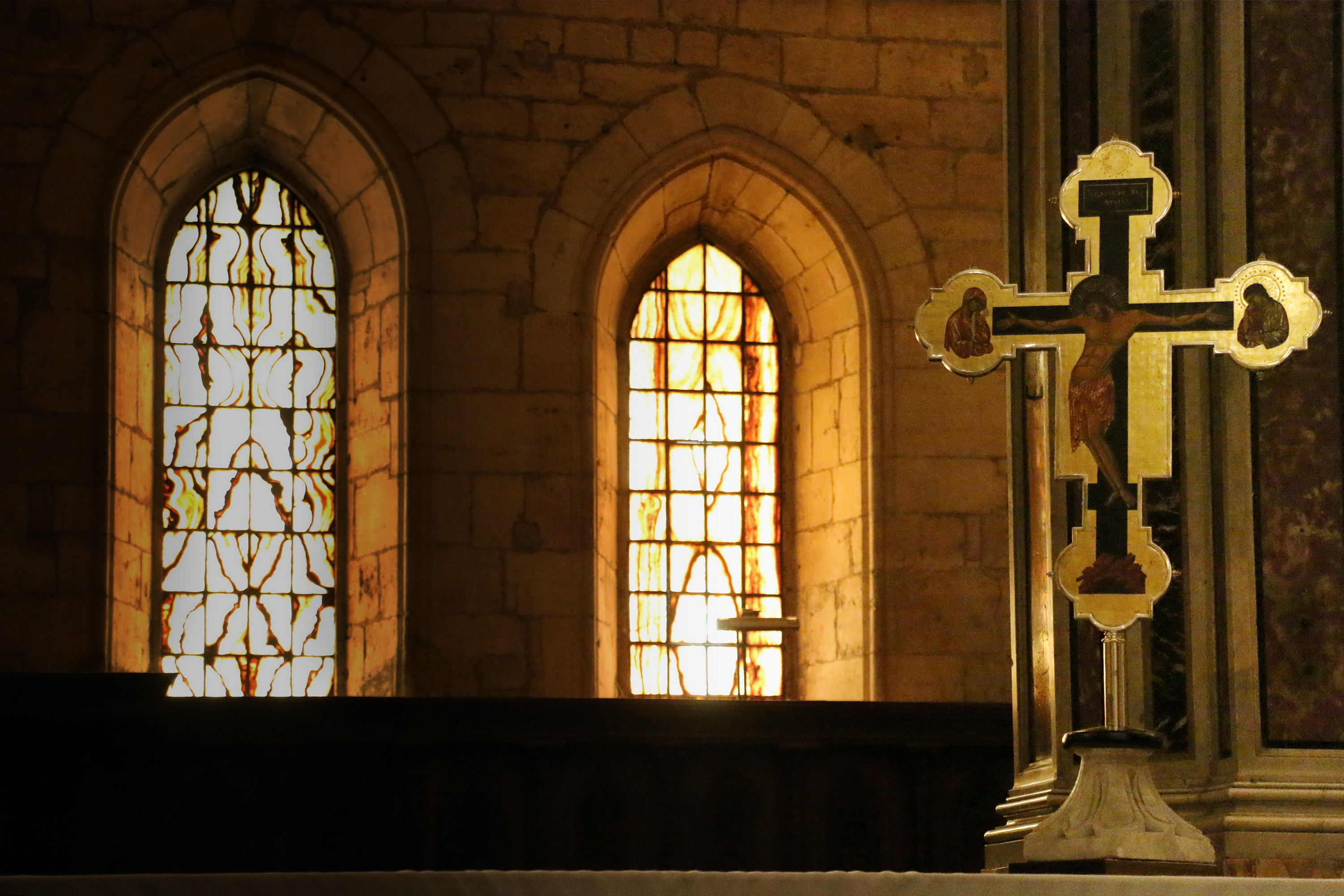 Abbazia di Casamari, Veroli, Lazio, Italy Casamari Abbey Native nameAbbazia di CasamariLocationVeroli, Lazio, ItalyCoordinates41° 40′ 17″ N, 13° 29′ 14″ E Authority control VIAF: 142886673 SUDOC: 031912028 BNF: 123038613